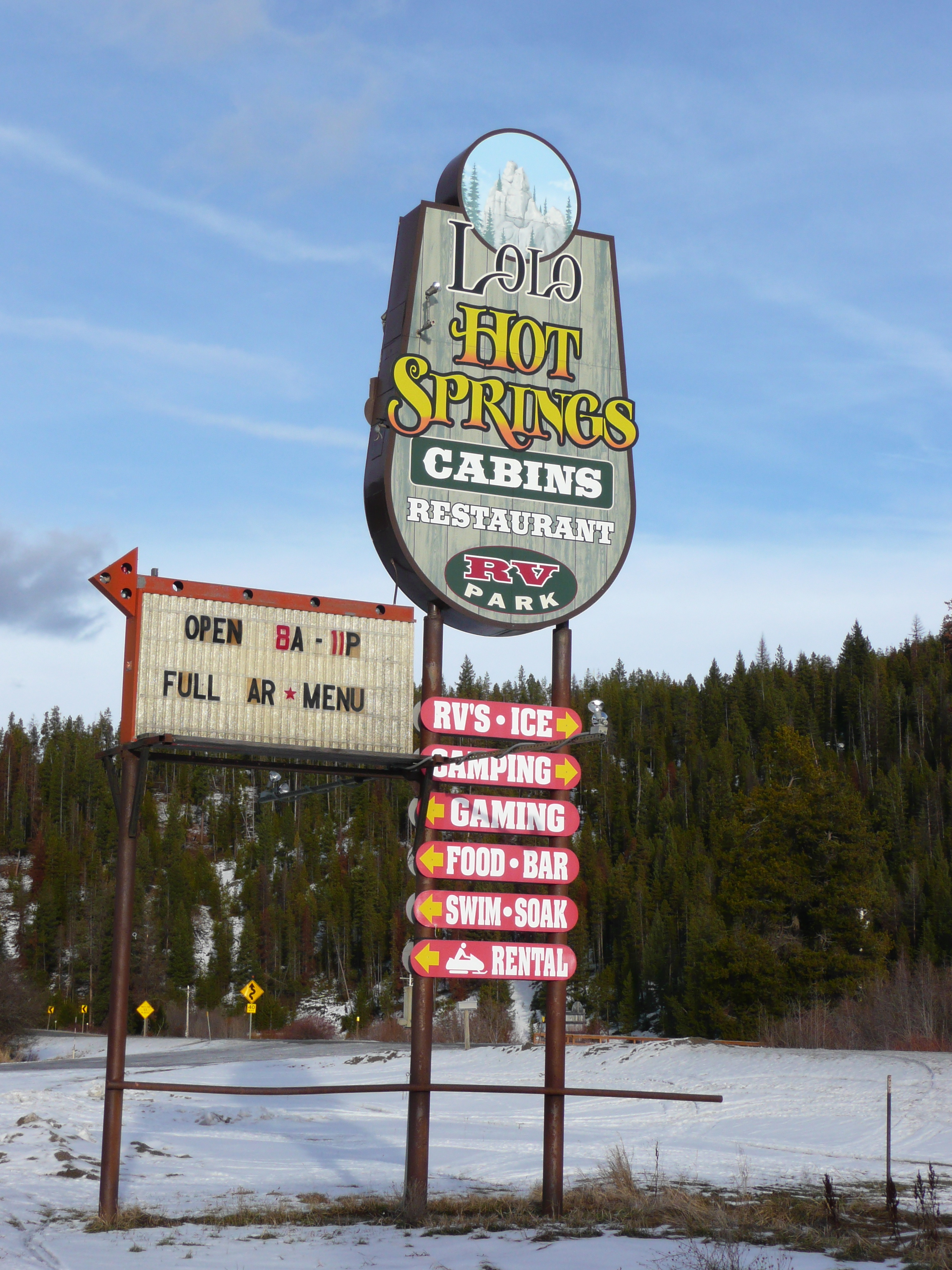 Lolo Hot Springs, Lolo, MT, 2011